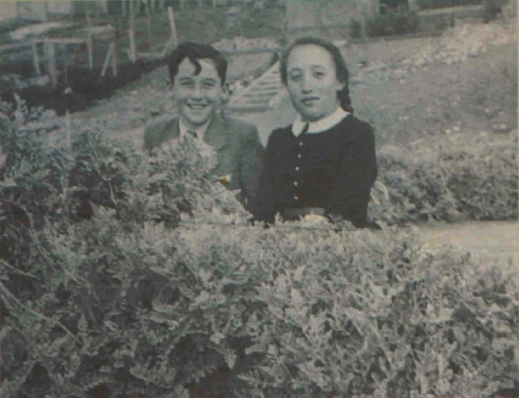 Siblings Teena Feiwel and Arié Ouriel in the Tel Aviv Promenade, near London Square, c. 1943-1944